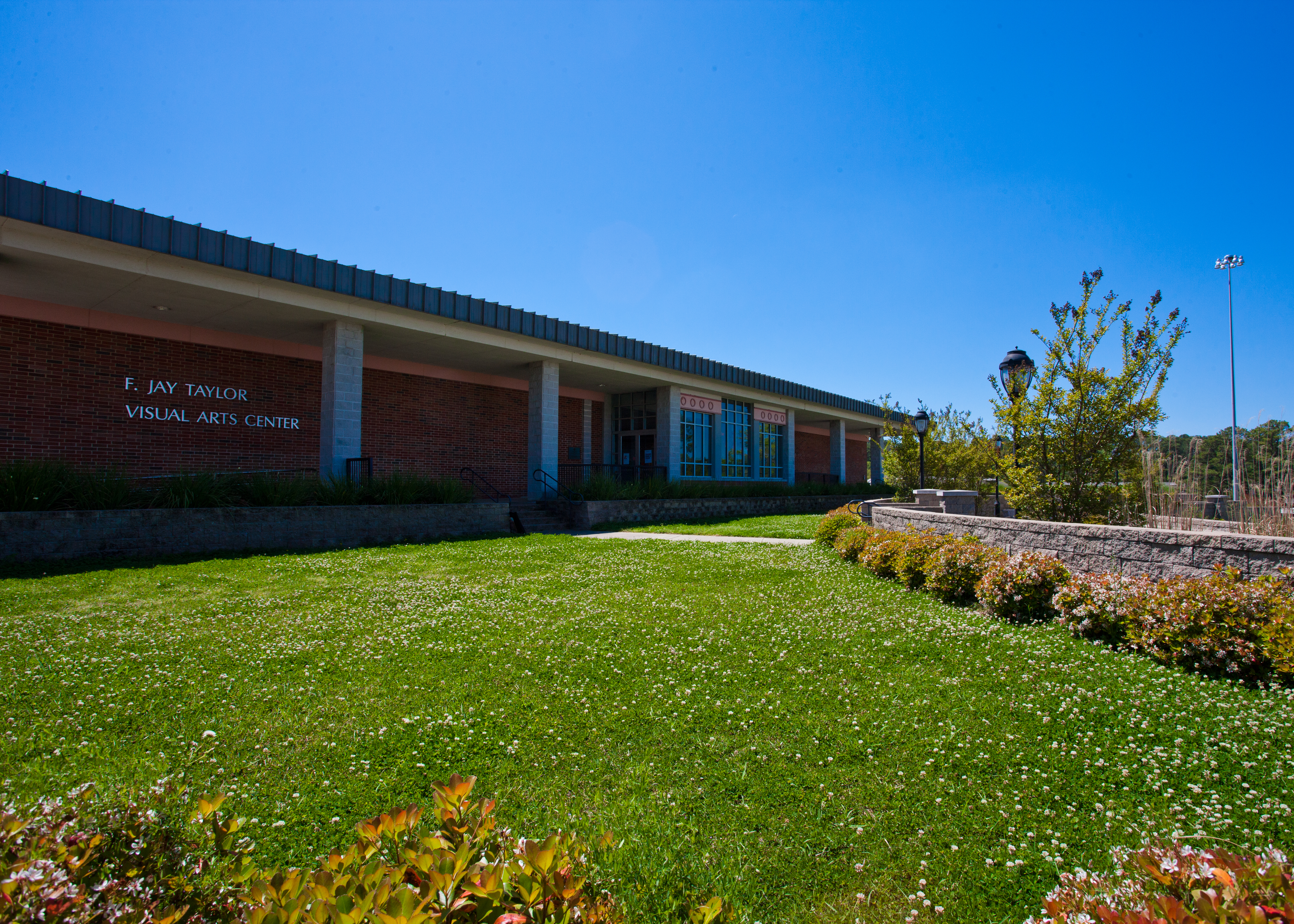 Louisiana Tech University's F. Jay Taylor Visual Arts Building. Home of LaTech's School of Design.